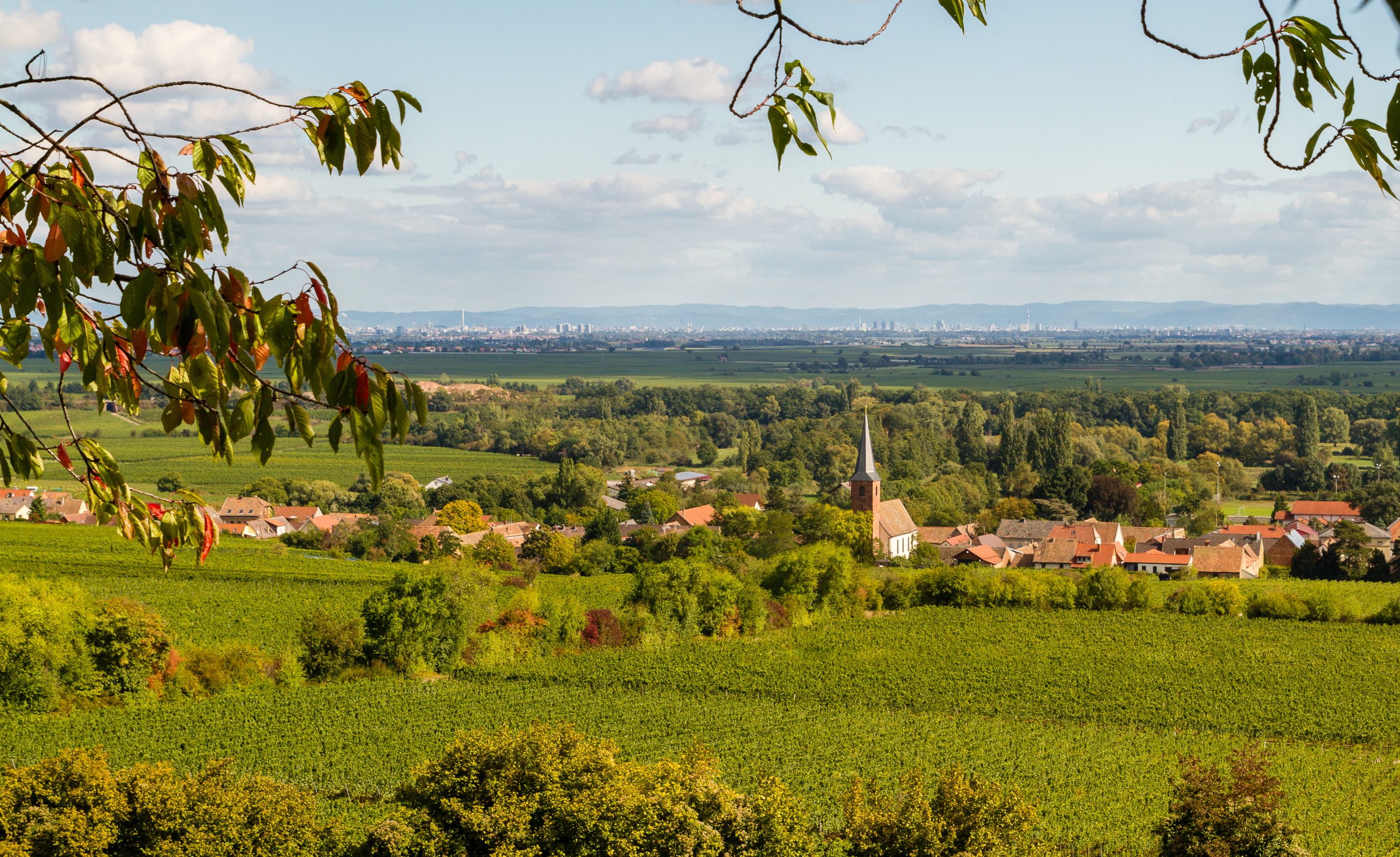 Title: View from the the edge of the Haardt (Palatinate Forest) to Forst an der Weinstraße and the Upper Rhine Plain Type: Natura 2000 Number: 6812-301 Designation: Biosphere reserve Palatinate Forest Location: Rhineland-Palatinate, Federal Republic of Germany Description: Bunter sandstone low mountain range with wide beeches and oaken old-growth forest. Rocks, streams and meadow valleys with varied standing water bodies. On the eastern edge calcareous dry grassland areas.